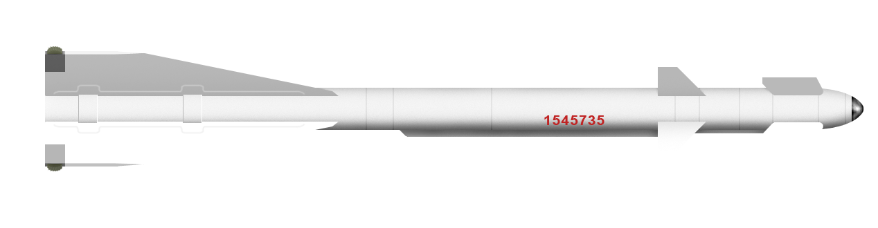 Molniya - Vympel R-60 (AA-8 Aphid) air to air missile scheme